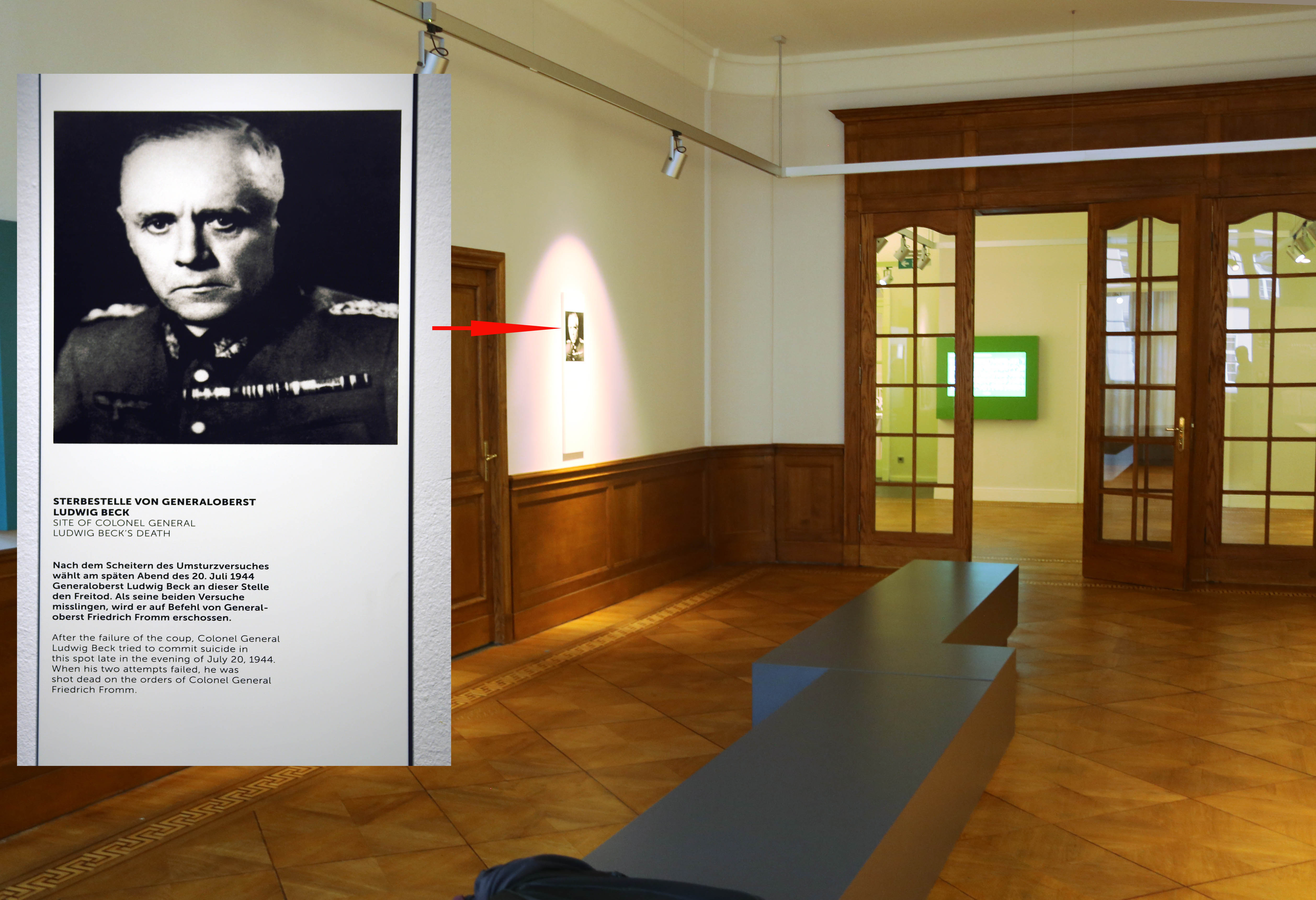 Site of Colonel General Ludwig Beck's suicide inside the Bendlerblock office where Valkyrie was planned.